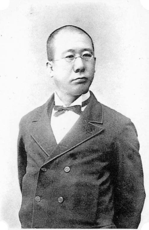 M. Toyama, Ex-President.